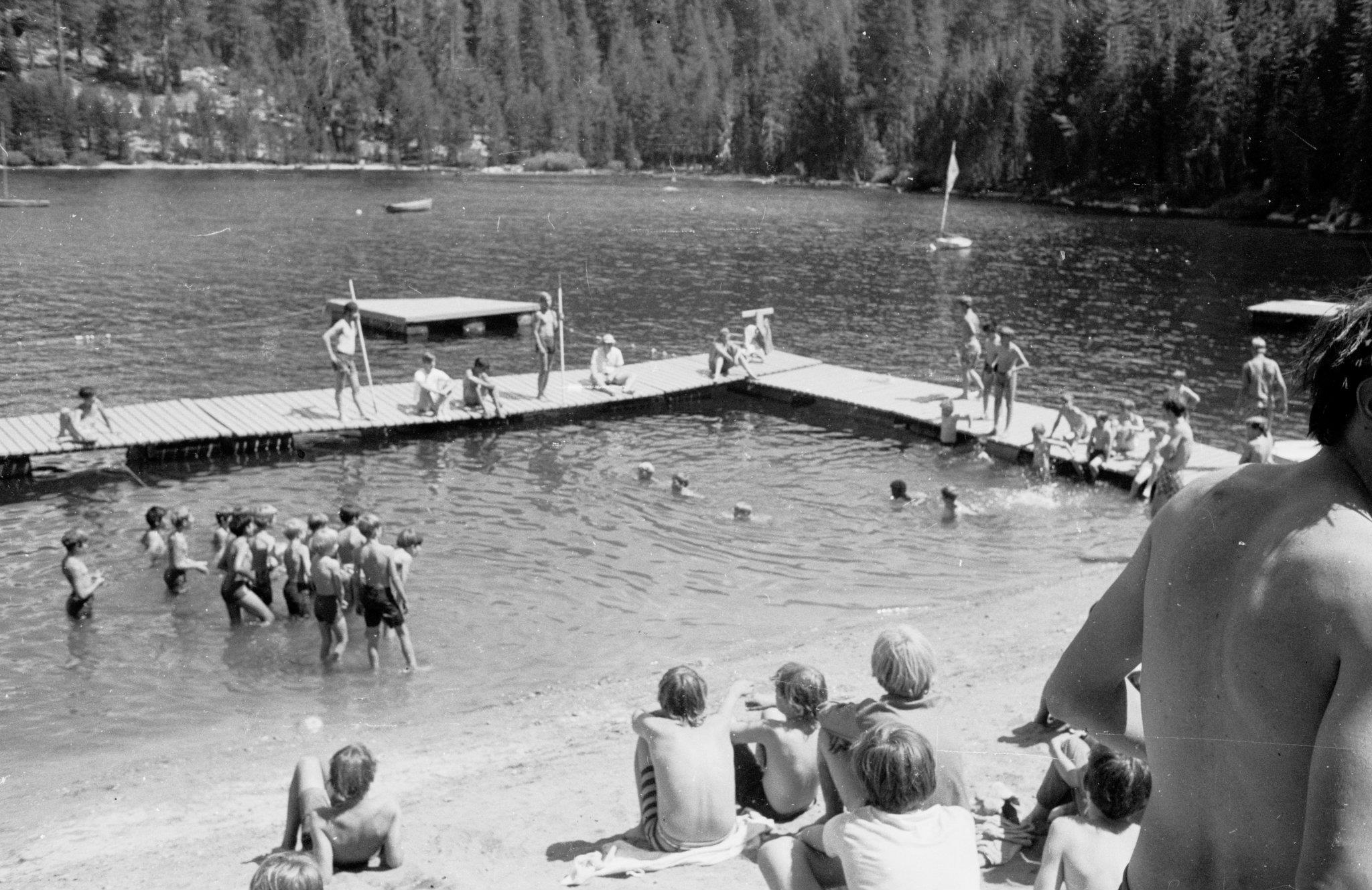 The swimming area at boy scout Camp Oljato in central California, about 1973.